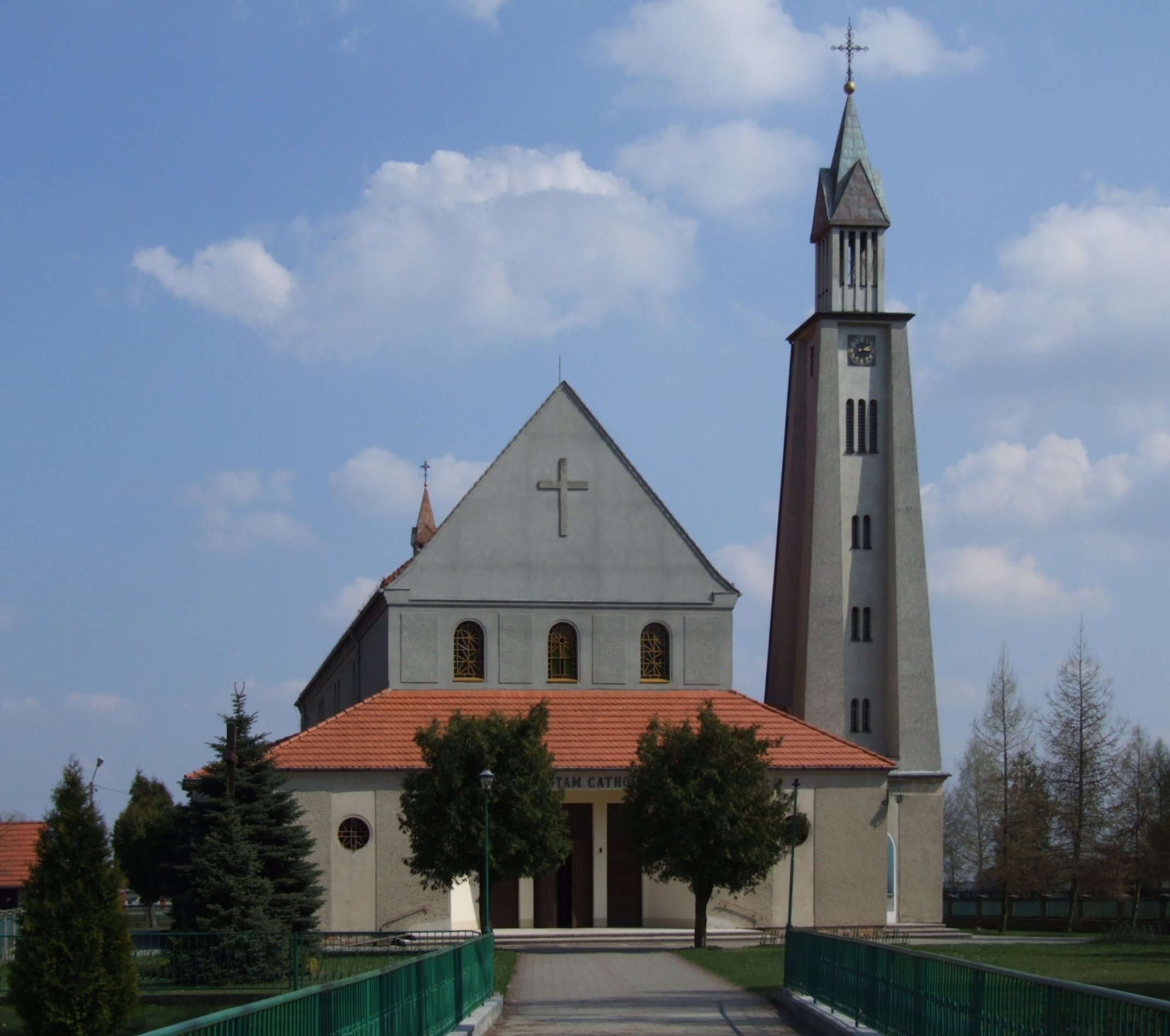 New church (built 1957-59) in Chocianowice (Kotschanowitz), Upper Silesia in Poland